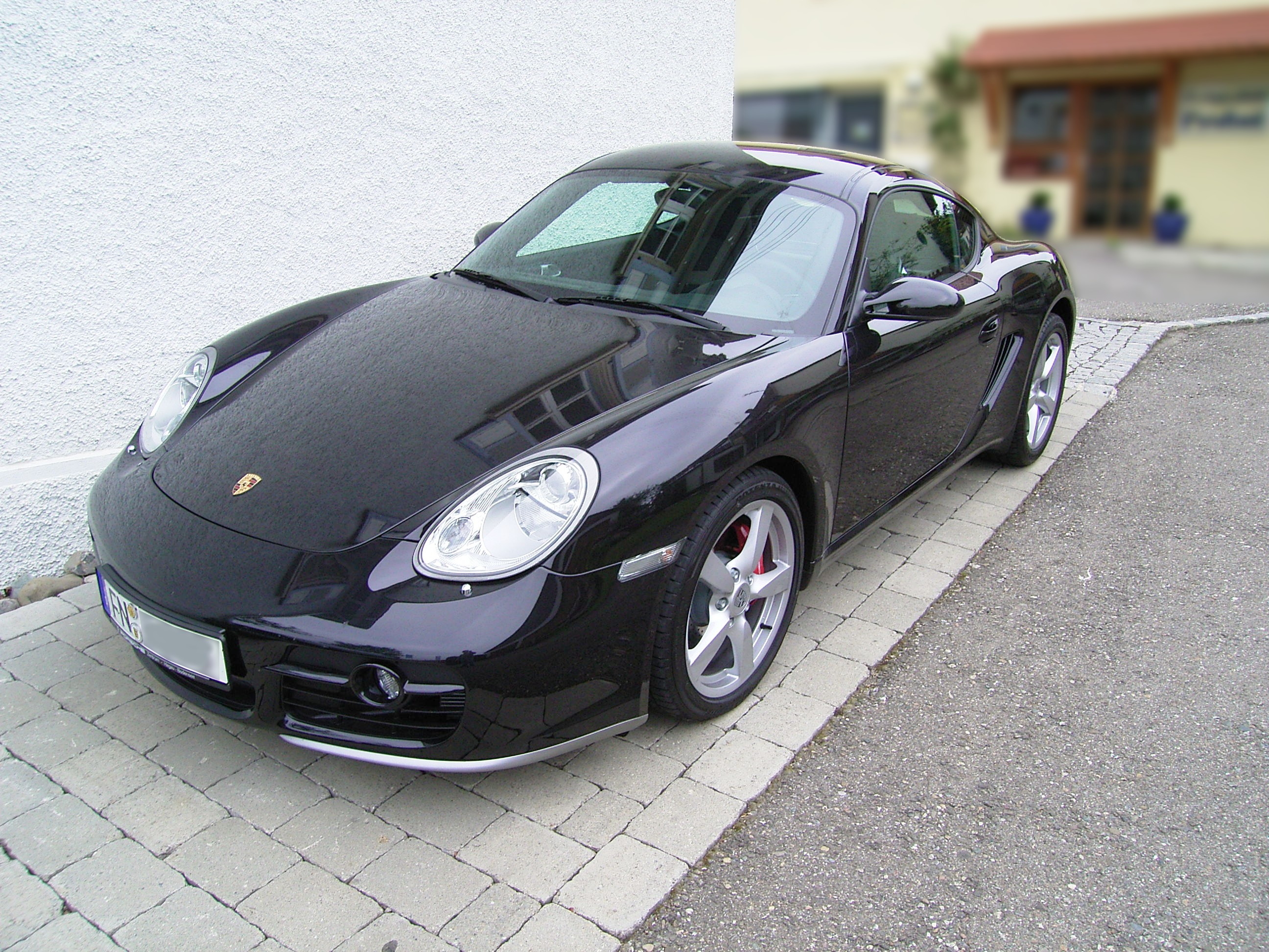 A black Porsche Cayman in Front-left view